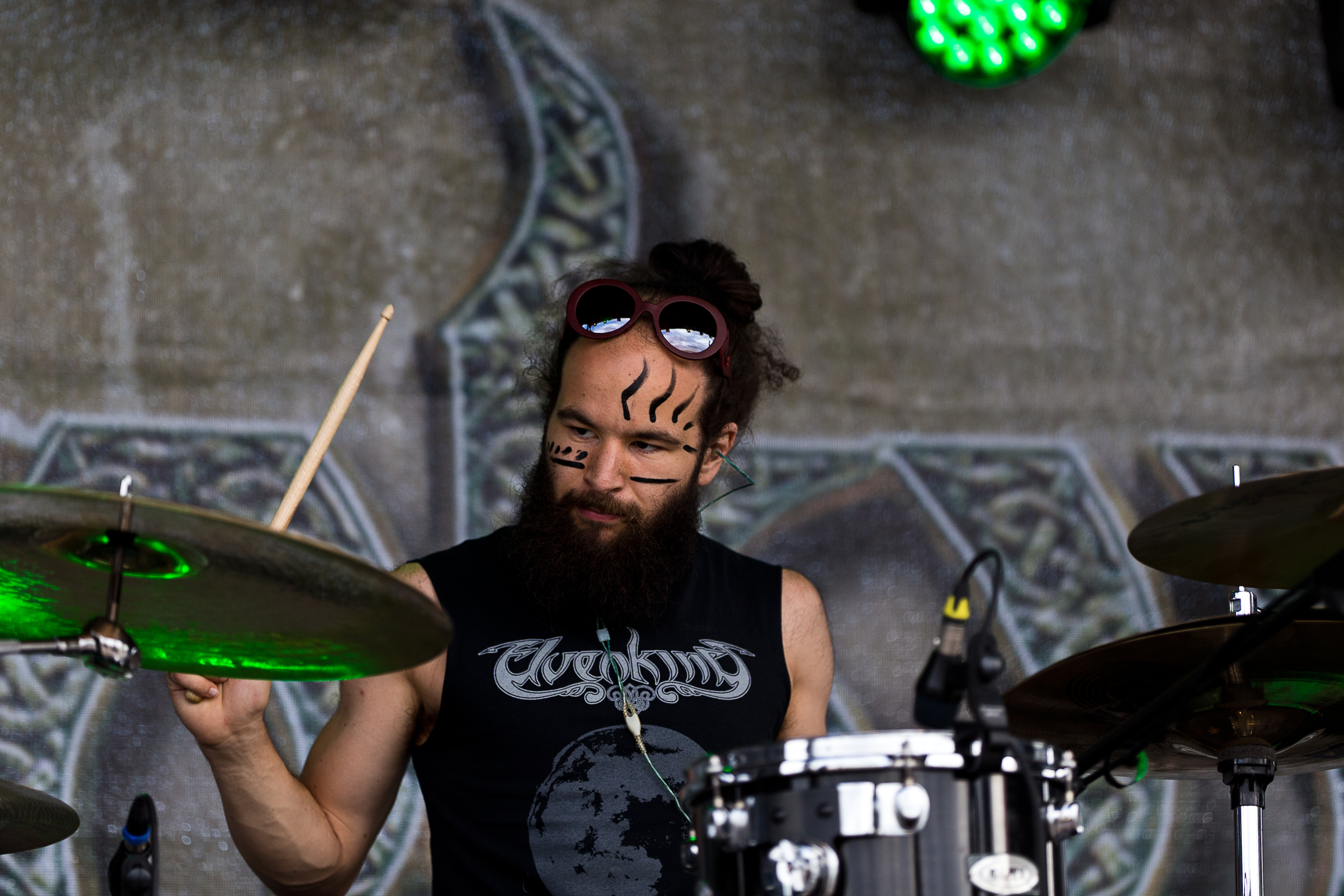 The Italian power metal band Elvenking at the Rockharz Open Air 2015 in Ballenstedt/Germany.